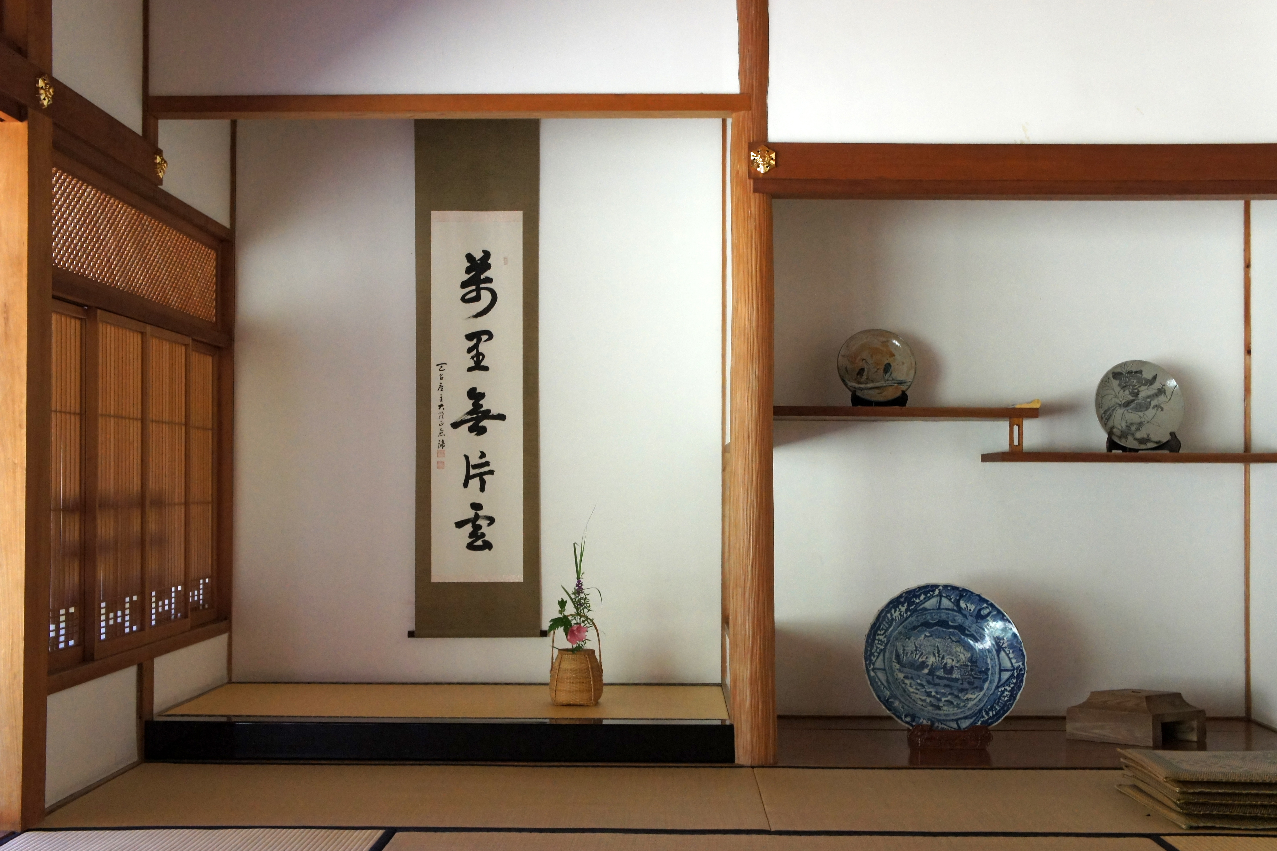 Kannon-in in Tottori, Tottori prefecture, Japan.